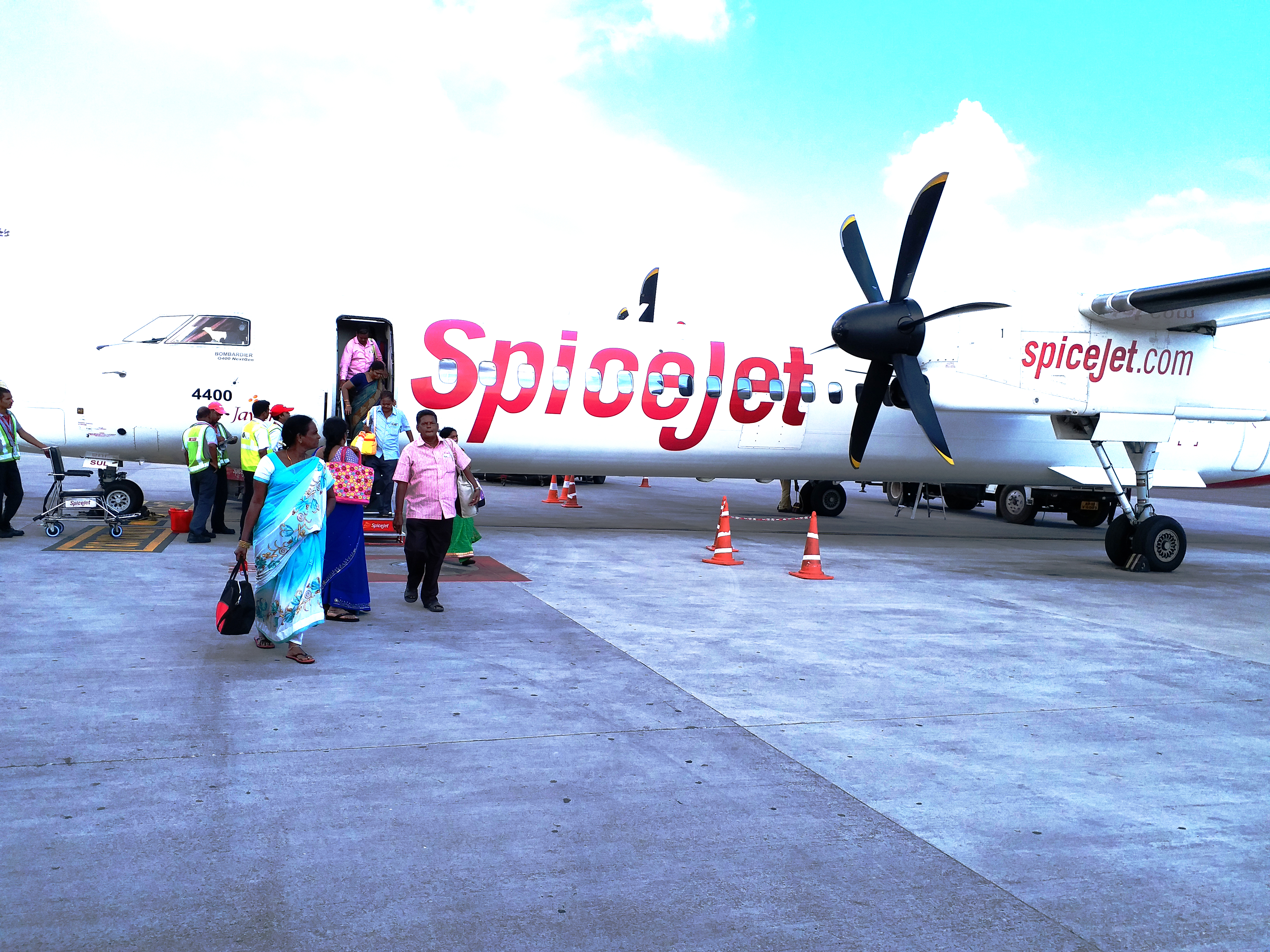 Spicejet MSN 4400